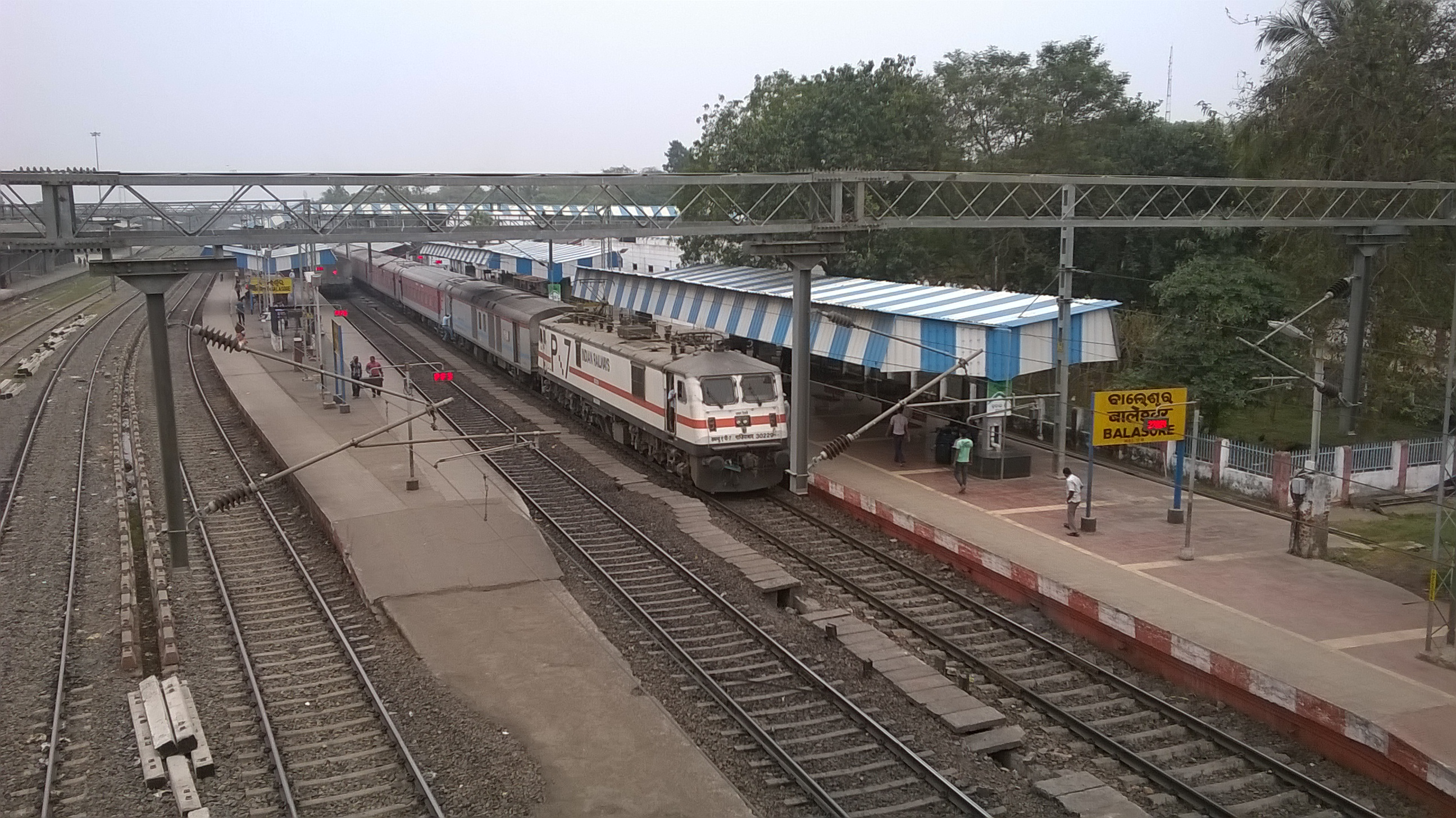 Balasore Railway Station Platform no.-2,3,4